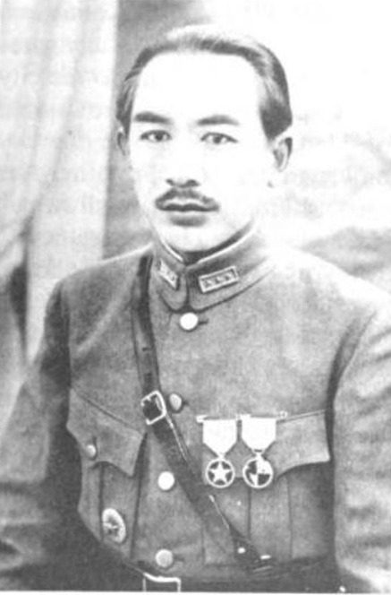 The Manchurian governor of Xinjiang, Sheng Shicai.